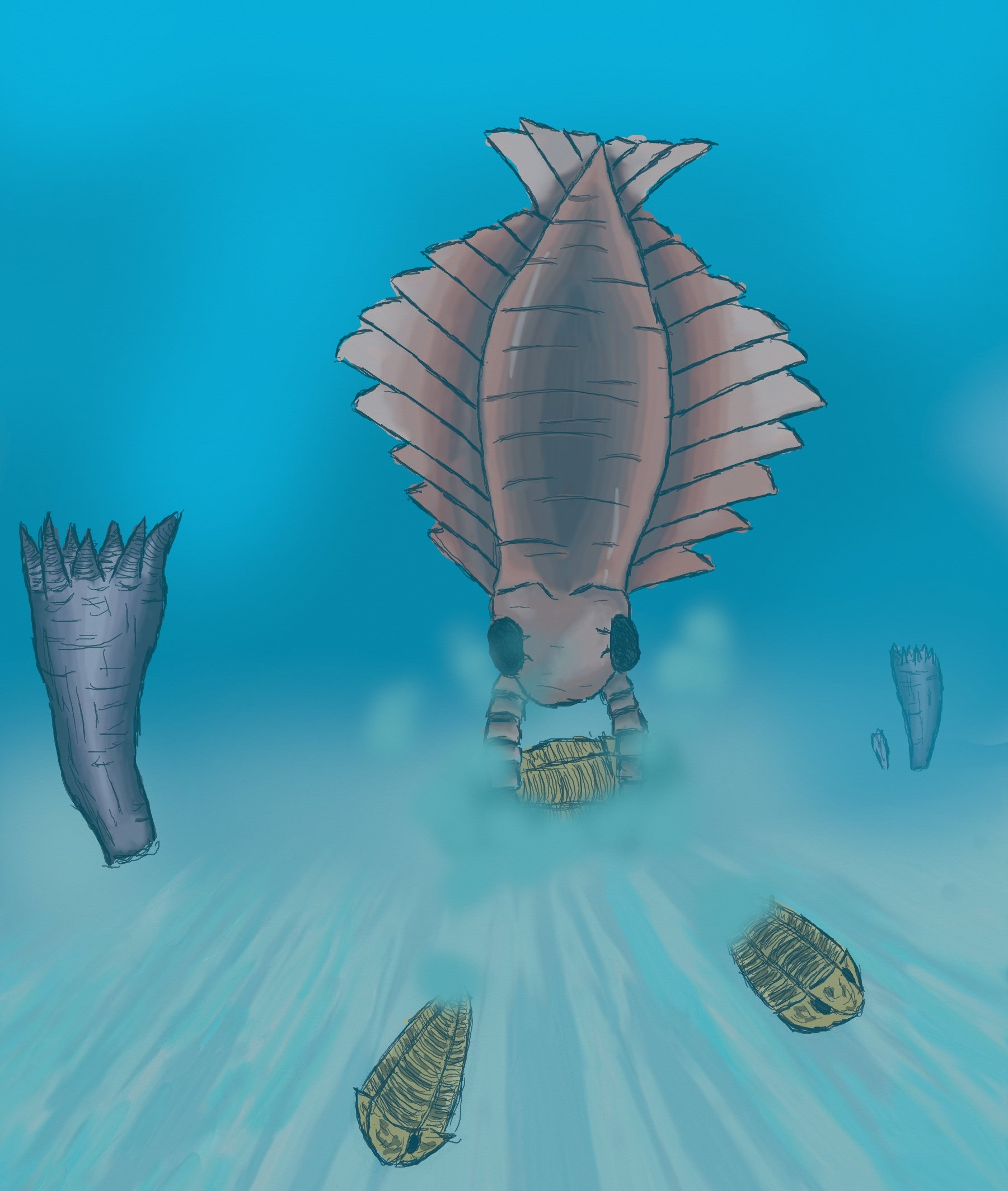 Reconstruction of Anomalocaris attacking an unidentified trilobite with its gracile appendages. The scene takes place in the end of the Cambrian, about 505 million years ago in Canada. In the background are three Echmatocrinus